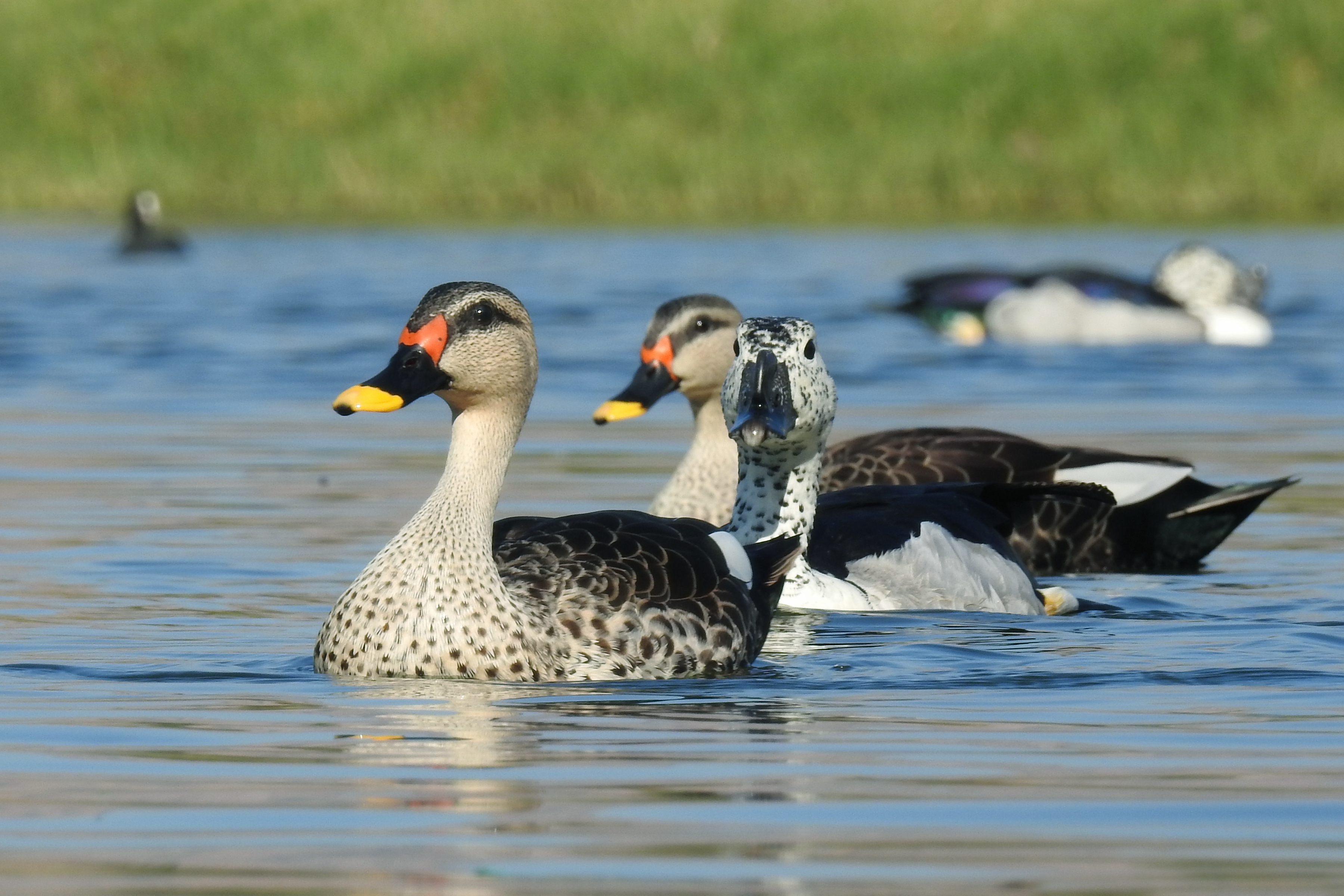 Pair of Indian Spot-billed Ducks Anas poecilorhyncha with a Knob-billed Duck Sarkidiornis melanotos. Photo taken in Jaipur, Rajasthan by Dr. Raju Kasambe